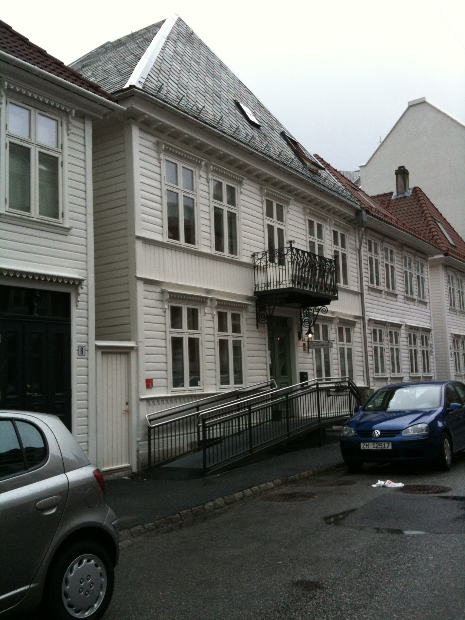 Jussformidlingen in Bergen, Norway